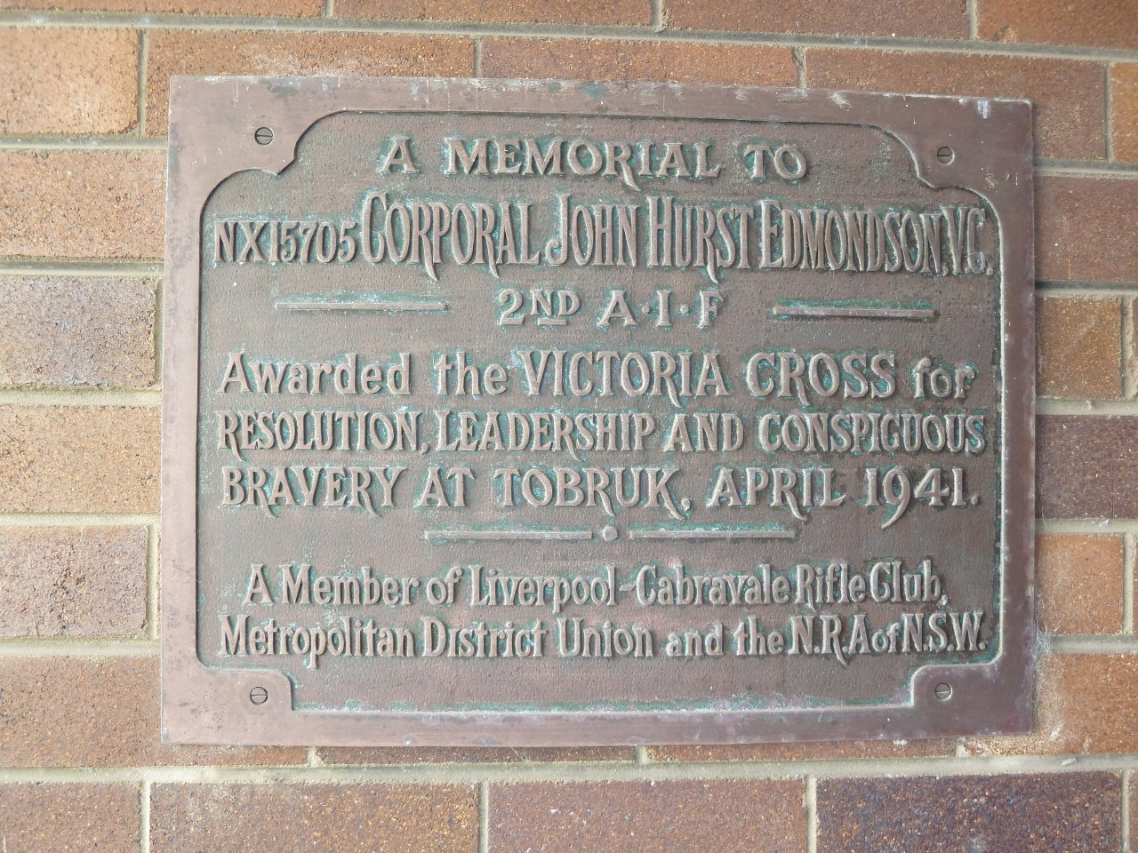 Malabar Headland - Rifle Range Memorial Plaques 2